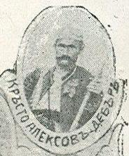 Portrait of IMARO member Krastyo Aleksov from Arbele.